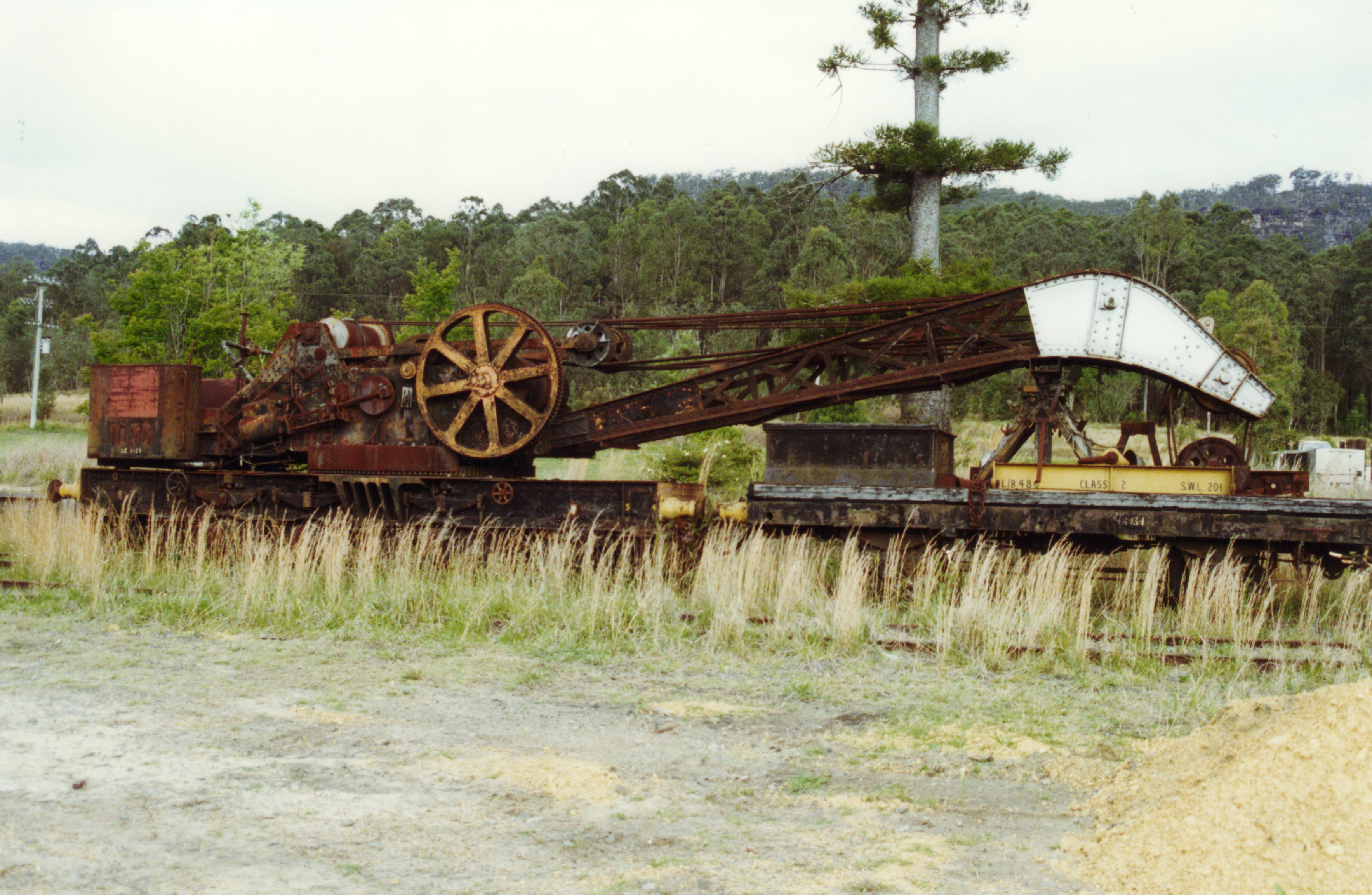 NSWGR Craven Brothers 30 Ton steam breakdown crane at Glenreagh.